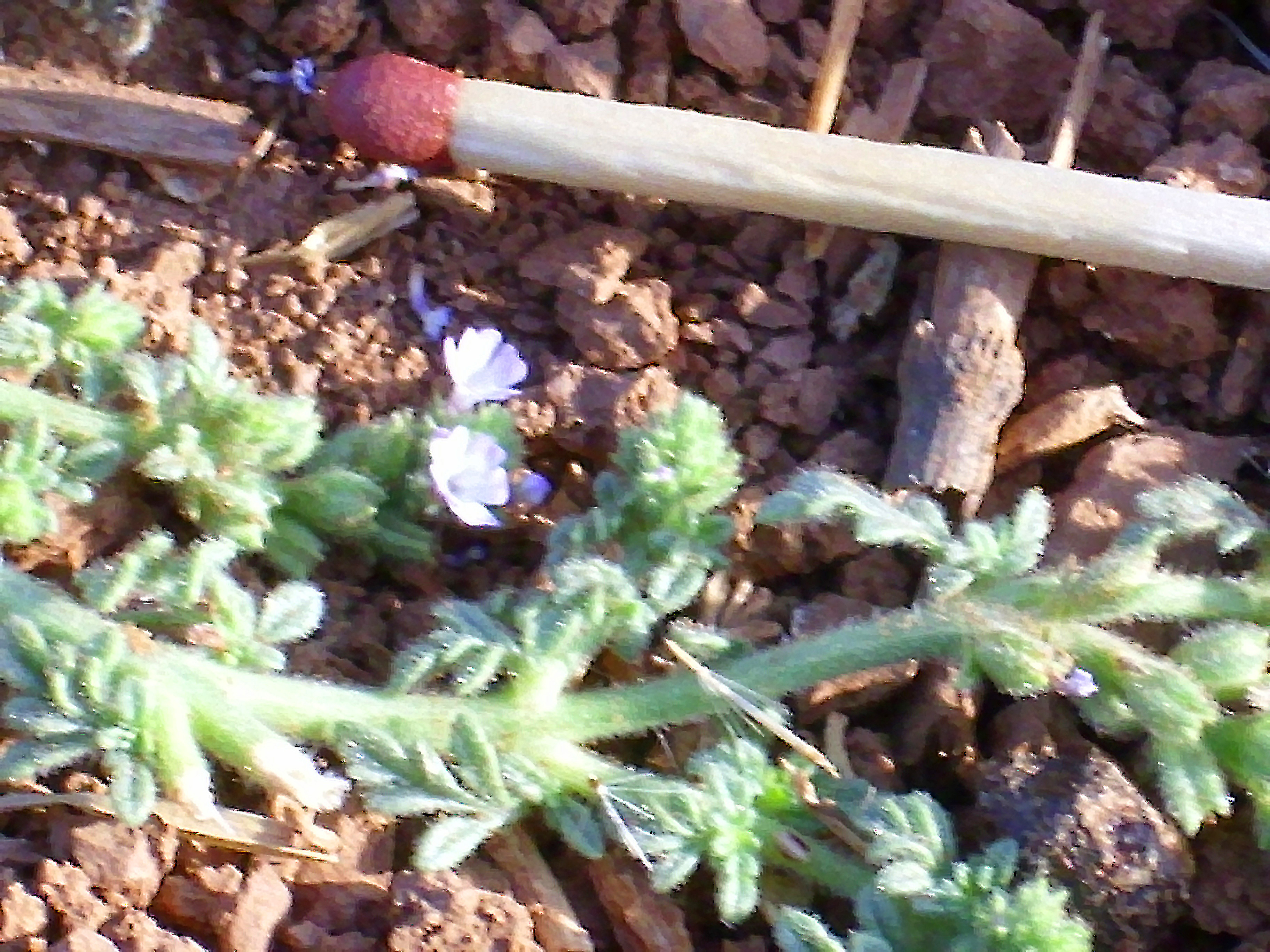 Verbena supina Flowers, Jabalón river, Campo de Calatrava, Spain